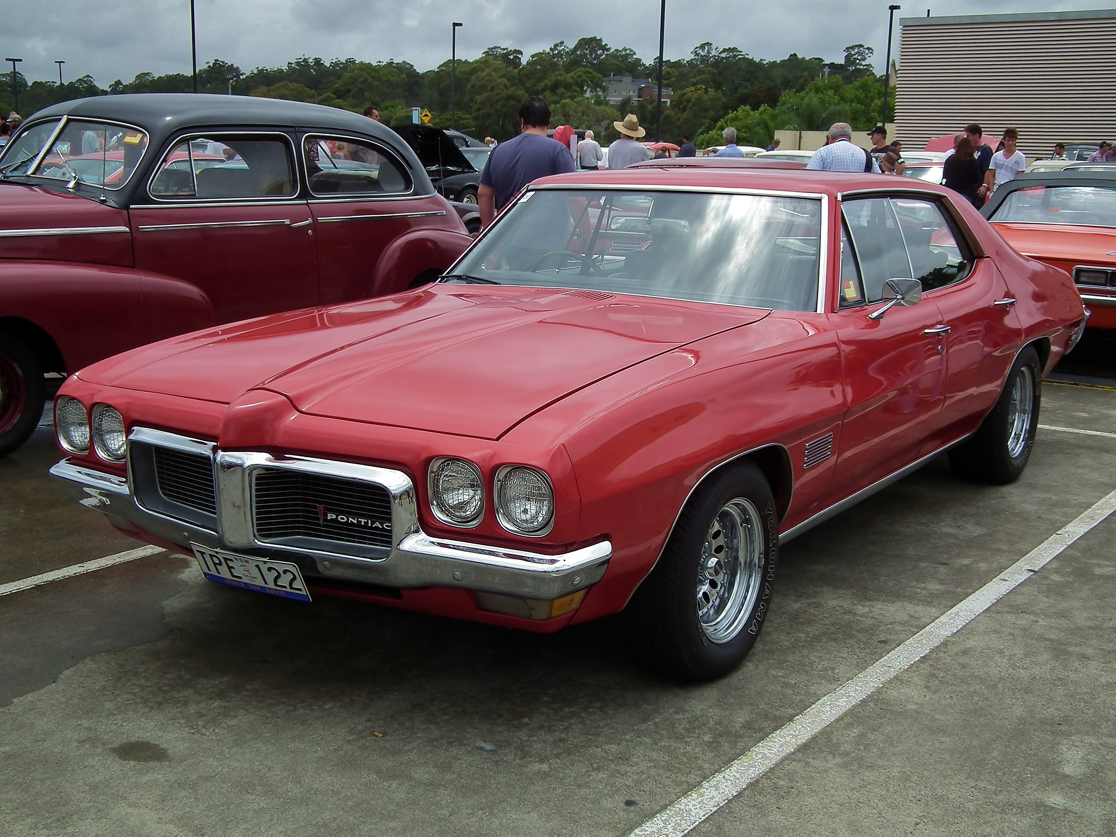 1970 Pontiac Le Mans Sport sedan. Taken at the 2012 New South Wales All American Day, held at Castle Towers Shopping Centre, Castle Hill, Sydney.